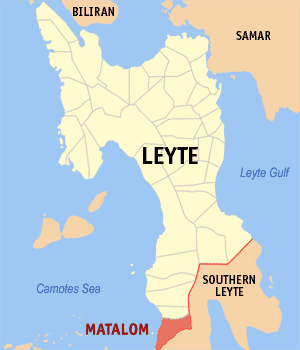 Map of Leyte showing the location of Matalom